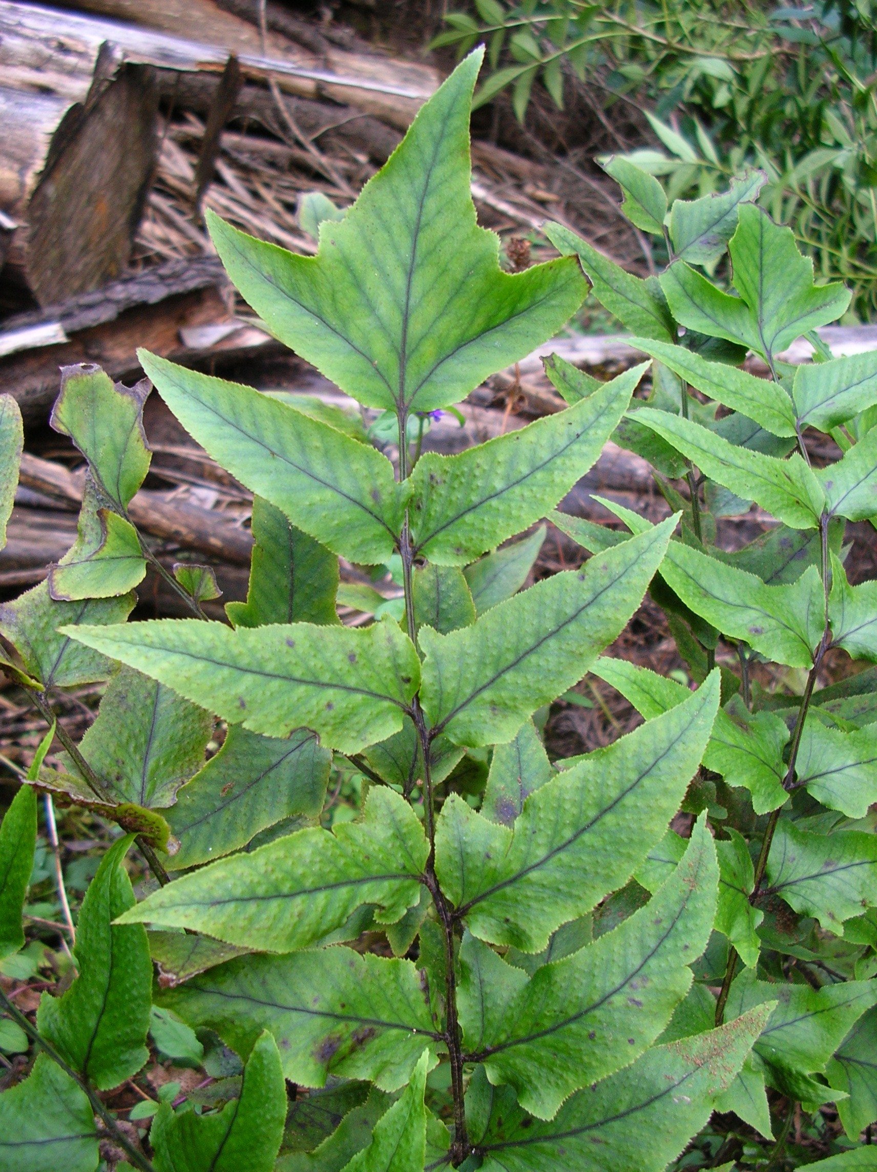 Cyrtomium caryotideum (frond). Location: Maui, Polipoli